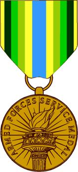 The Armed Forces Service Medal of the United States military. A Bronze medal, 1 1/4 inches in diameter with a demi-torch (as on the Statue of Liberty) encircled at the top by the inscription “ARMED FORCES SERVICE MEDAL” on the obverse side. On the reverse side is an eagle (as on the seal of the Department of Defense) between a wreath of laurel in base and the inscription “IN PURSUIT OF DEMOCRACY” at the top.